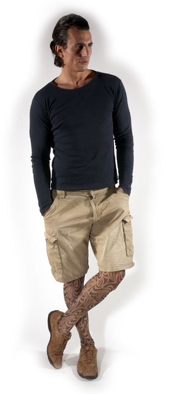 A man wearing patterned pantyhose as a regular clothing item.